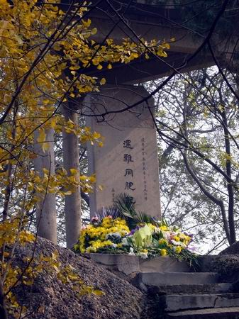 A memorial stone at Yanziji in Nanjing, for victims in Nanjing Massacre. 遇难同胞纪念碑，燕子矶。